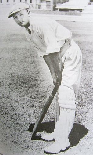 Don Bradman in 1928